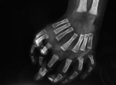 A radiography showing seven triphalangeal digits with seven corresponding metacarpals all in one plane.